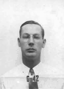 Donald W. Kerst Los Alamos wartime security badge.